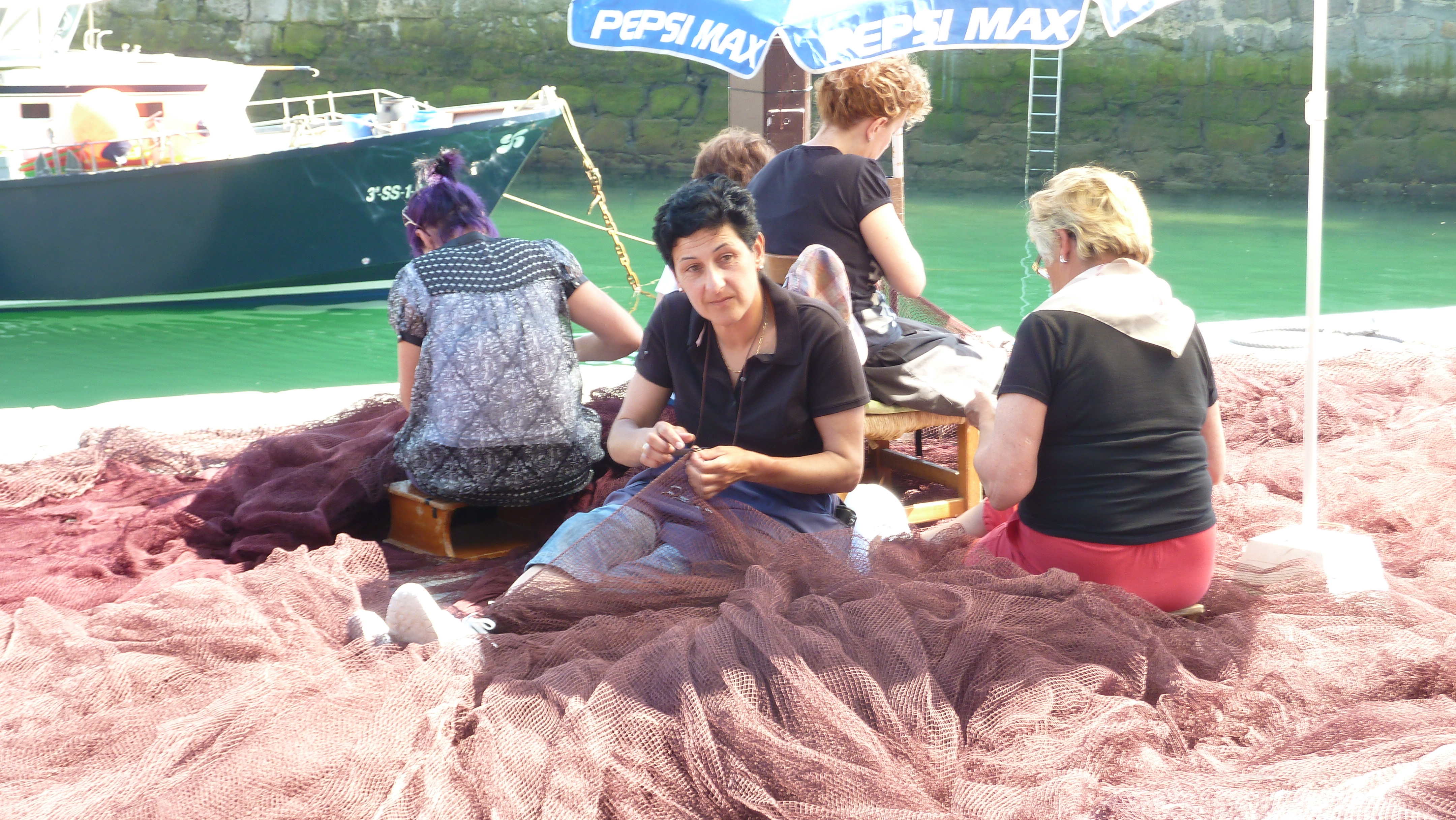 Net menders in Donostia